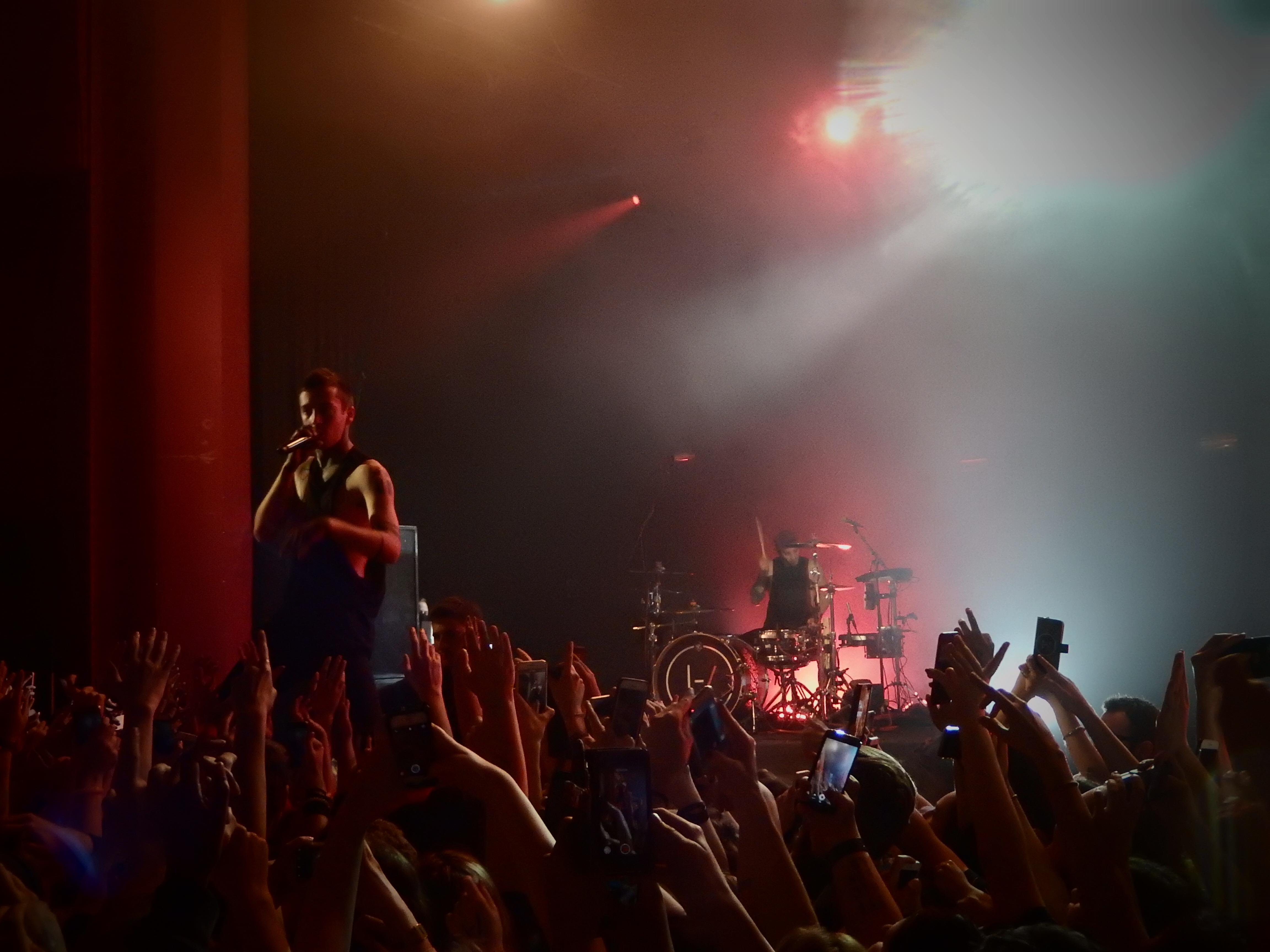 Twenty One Pilots, Shepherds Bush Empire, London